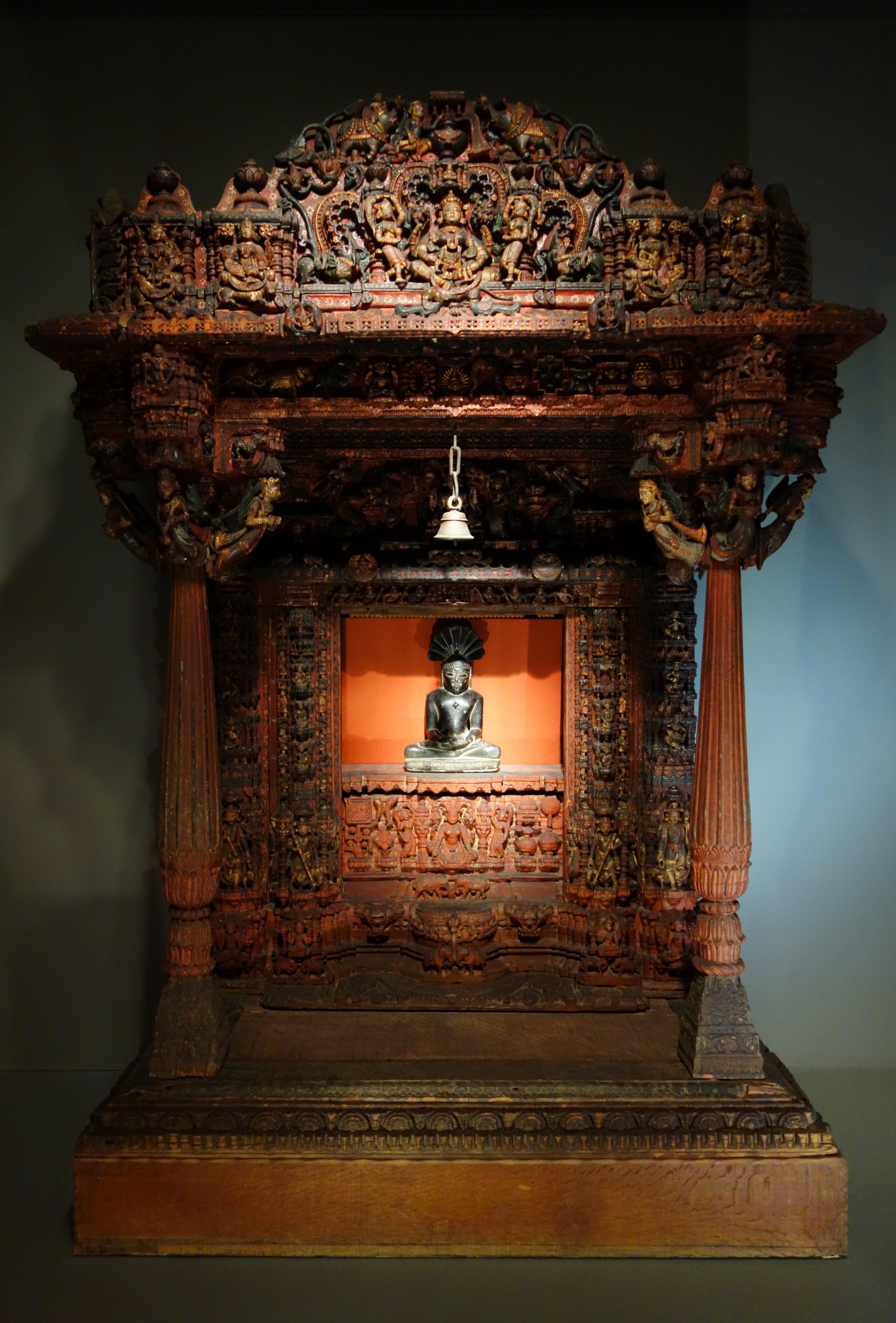 Exhibit in the Cincinnati Art Museum, Cincinnati, Ohio, USA. This artwork is in the public domain because the artist died more than 70 years ago.